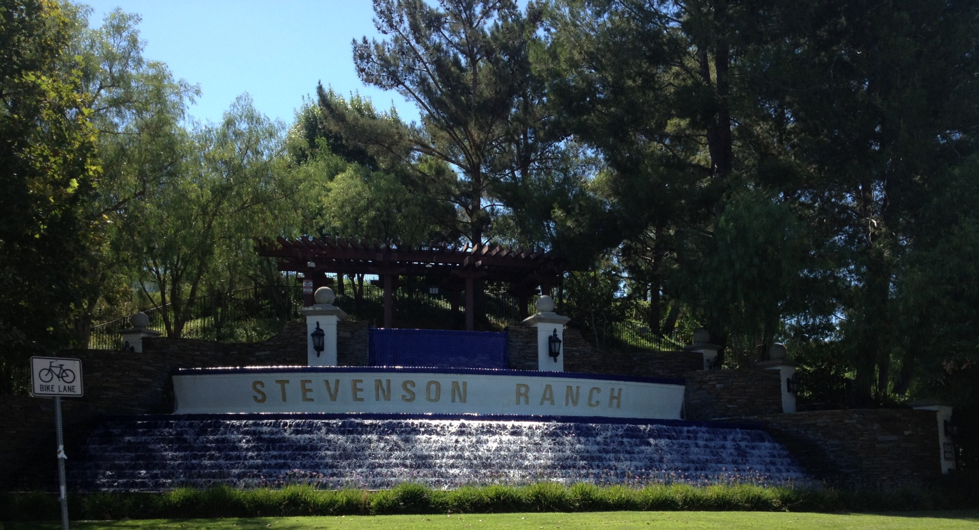 Fountain at entrance to Stevenson Ranch — census-designated place in the Santa Clarita area, Los Angeles County, California.